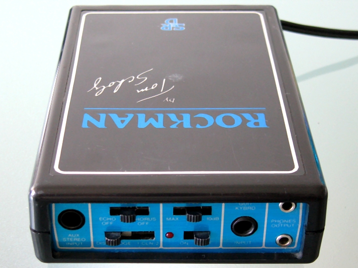 Mini-Amplifier Rockman